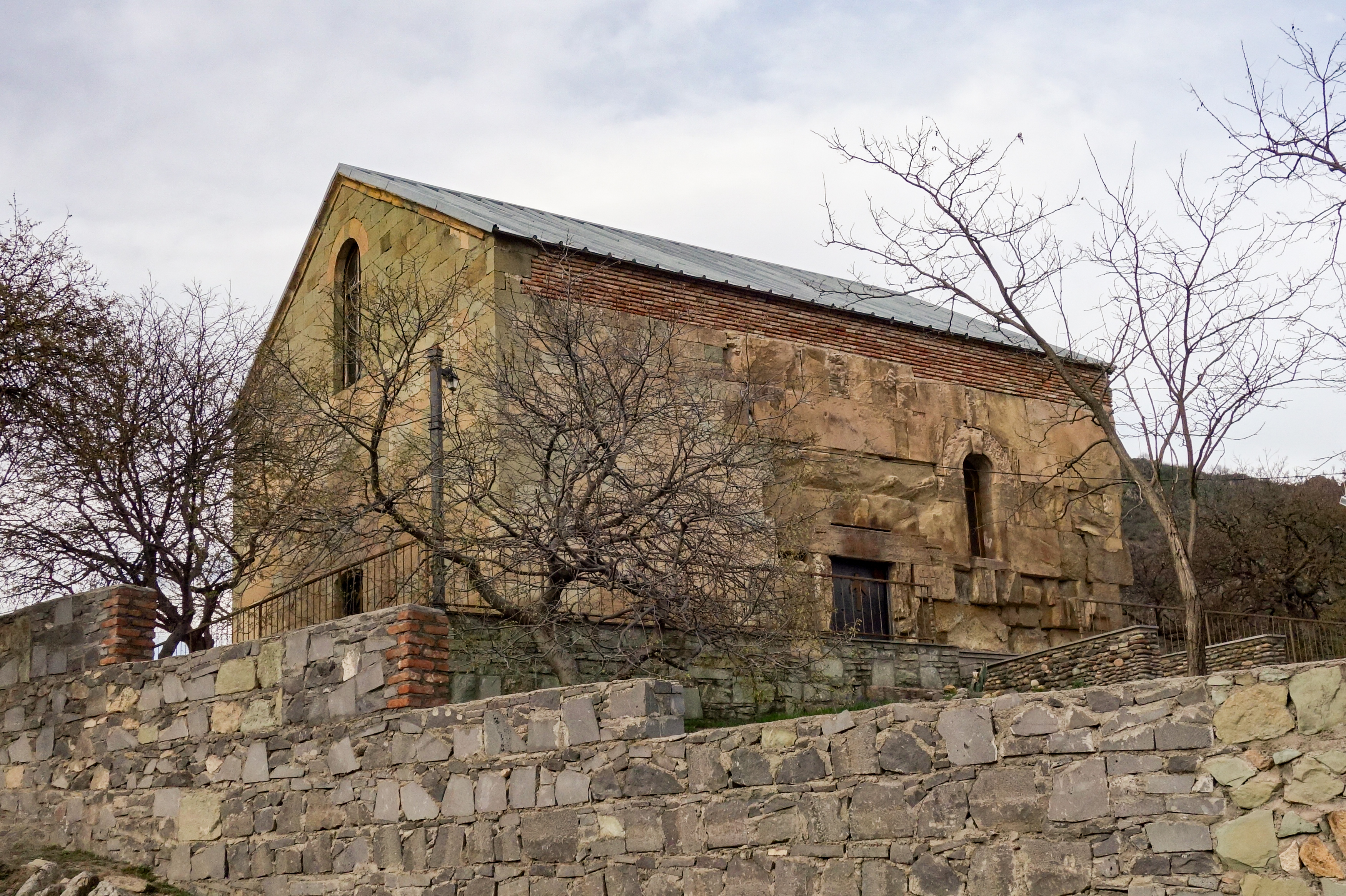 Church of the Dormition (V-VI cc.) in Akaurta, Kvemo Kartli, Georgia